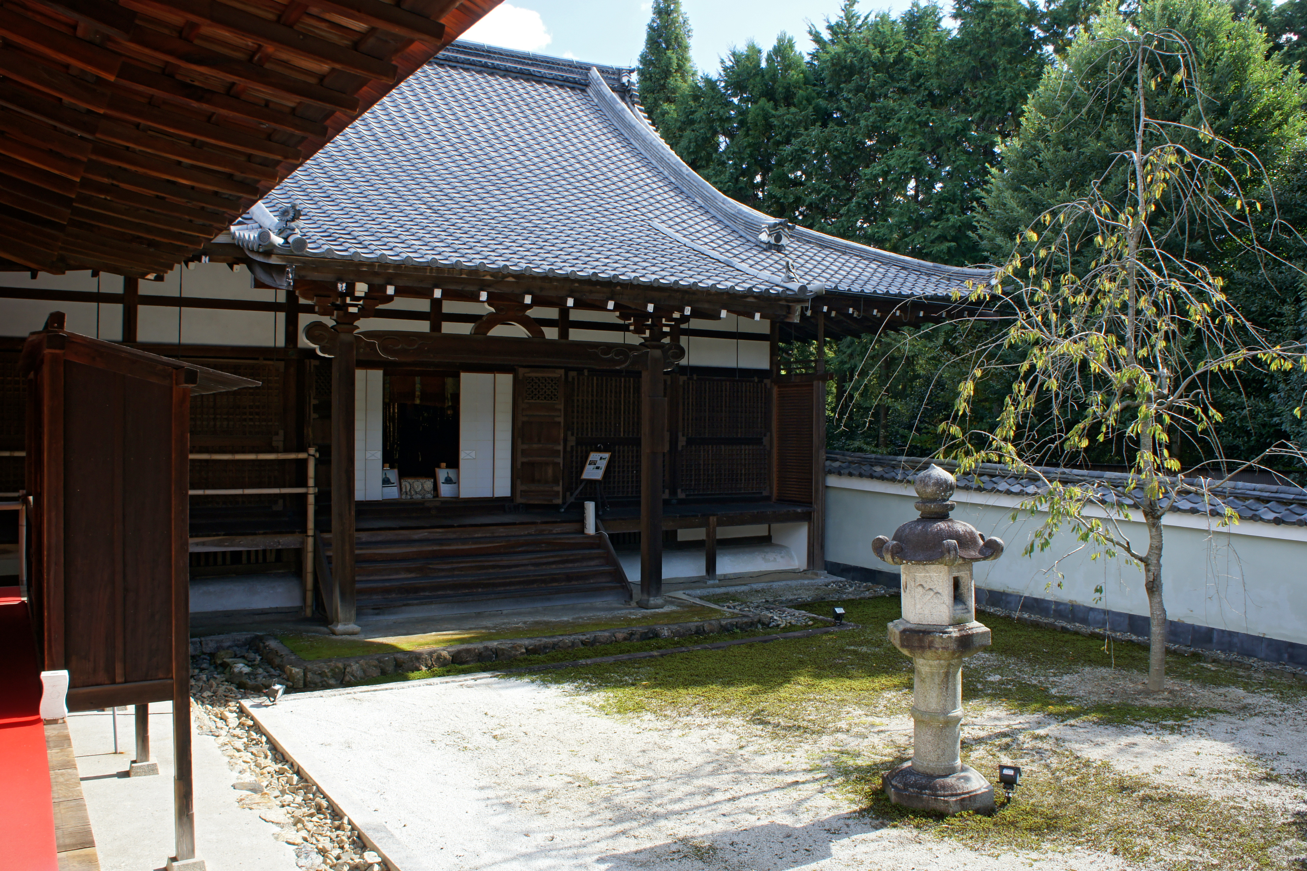 Unryu-in in Higashiyama-ku, Kyoto, Kyoto prefecture, Japan